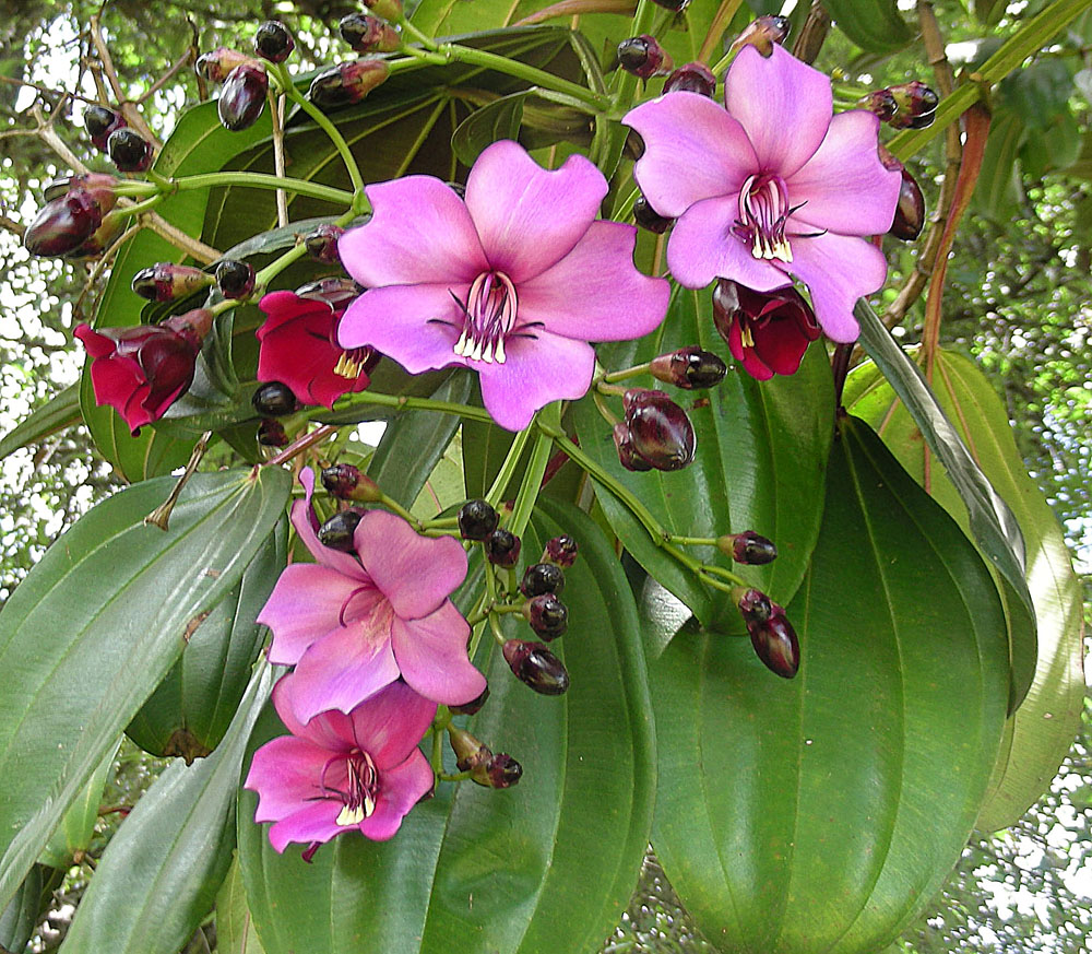 Native to the mountains of Colombia and Venezuela and known as Amarrabollis or Amarroboyo. Botanical Gardens of Bogota. In context at